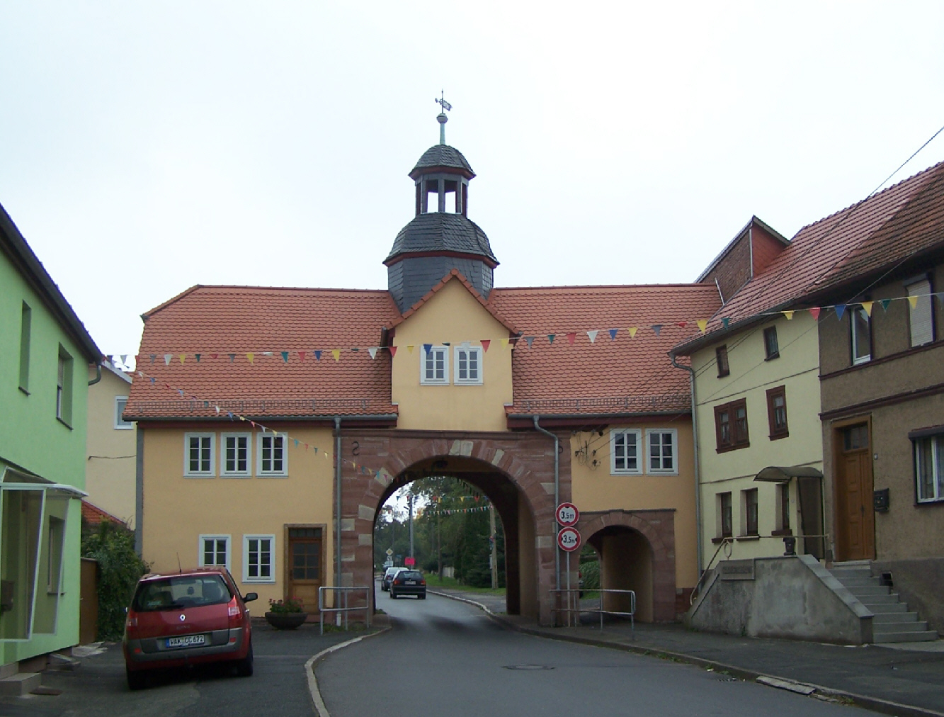 The town's landmark - called Untertor.